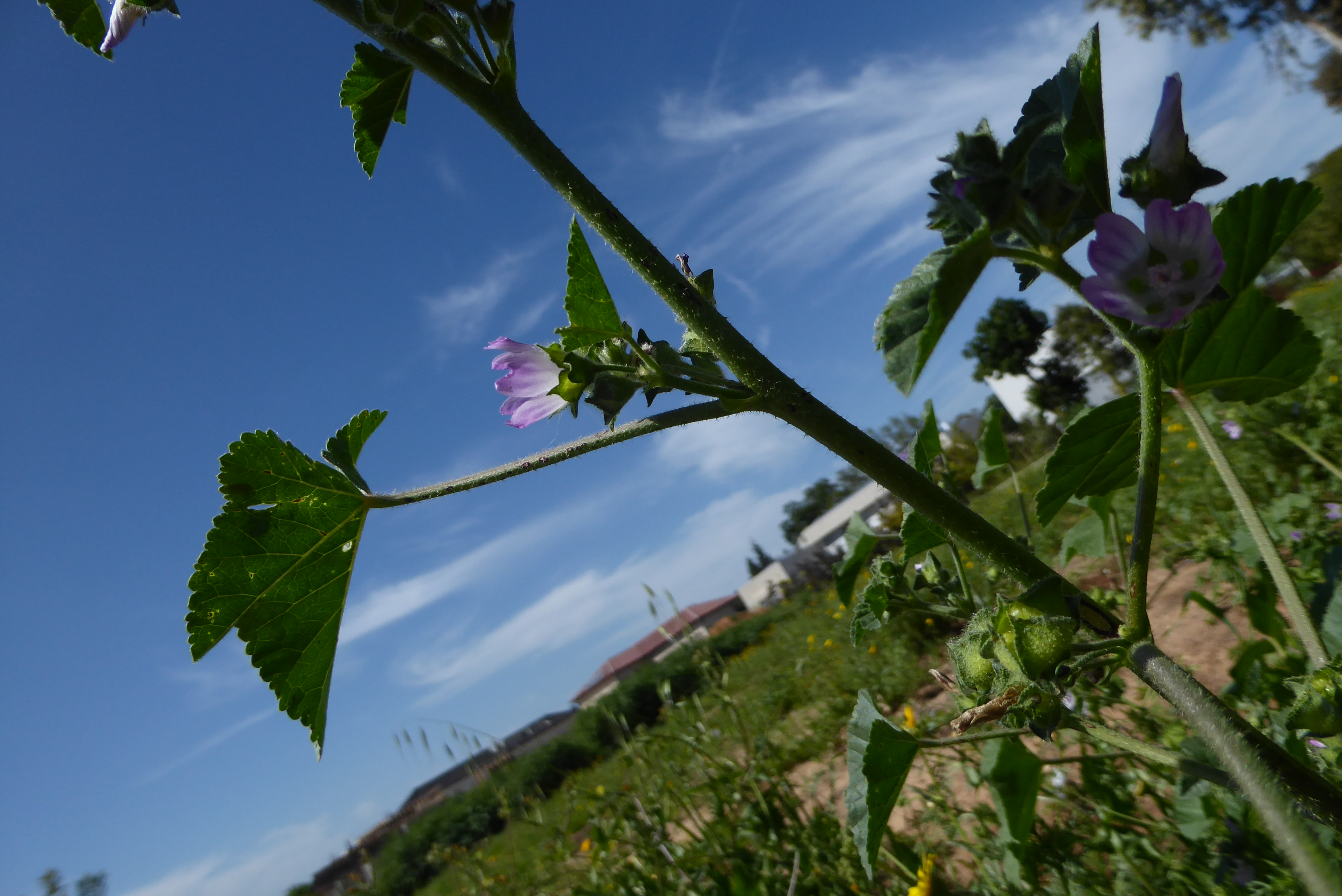 Savion blossoms